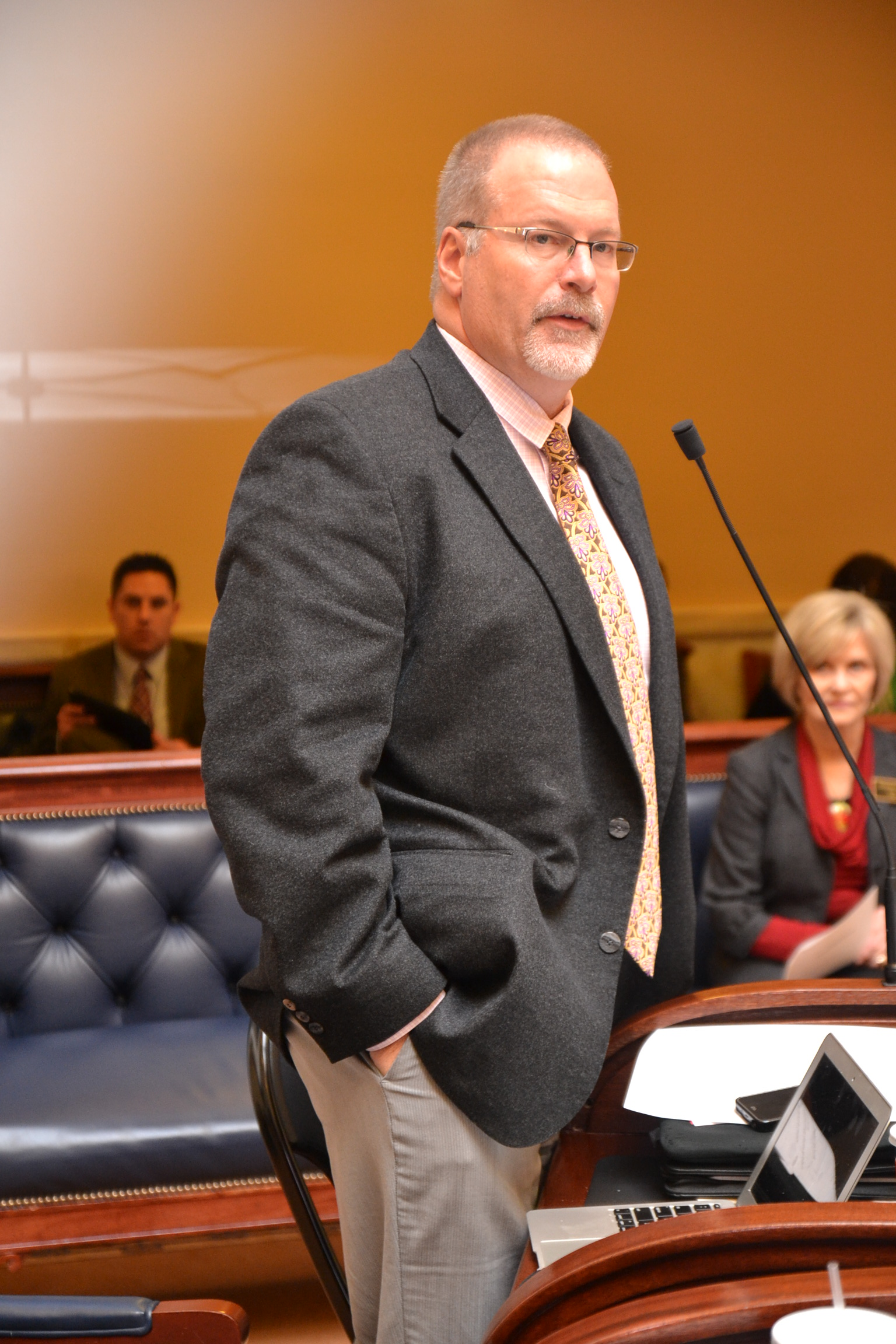 Senator Stephen Urquhart